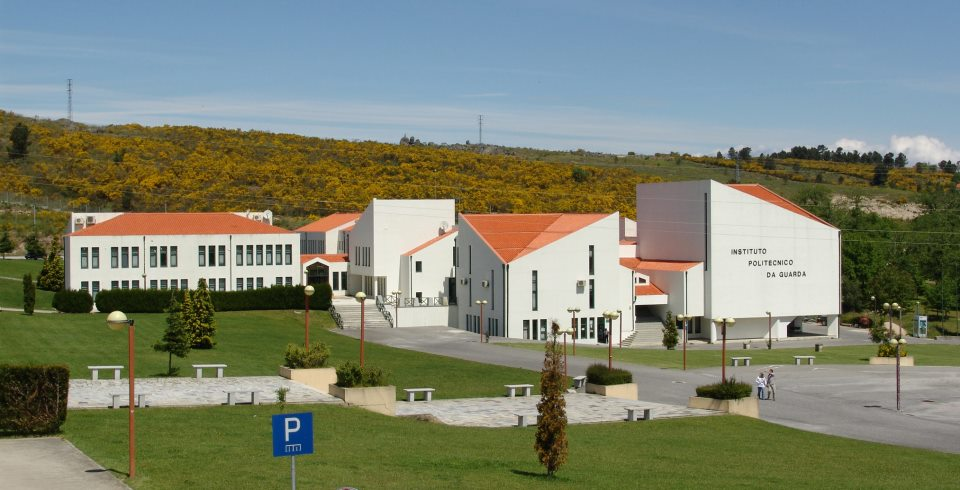 IPG